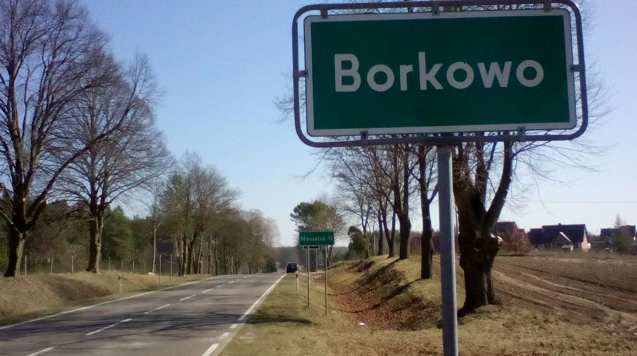 The Village of Borkowo at the river Wkra 2015